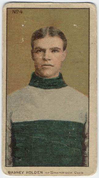 Barney Holden Imperial Tobacco C56 hockey card